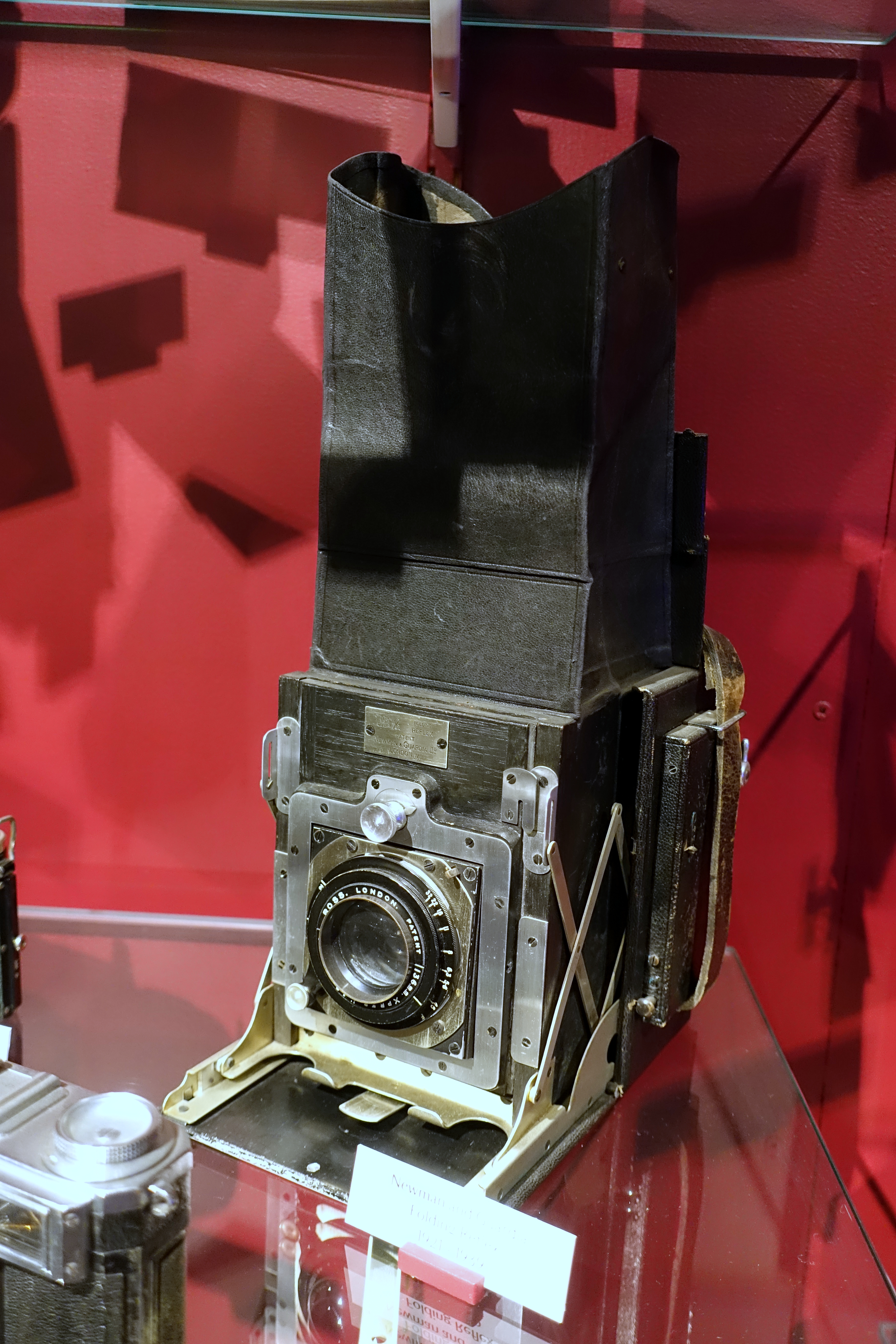 Exhibit in the Fox Talbot Museum - Wiltshire, England.